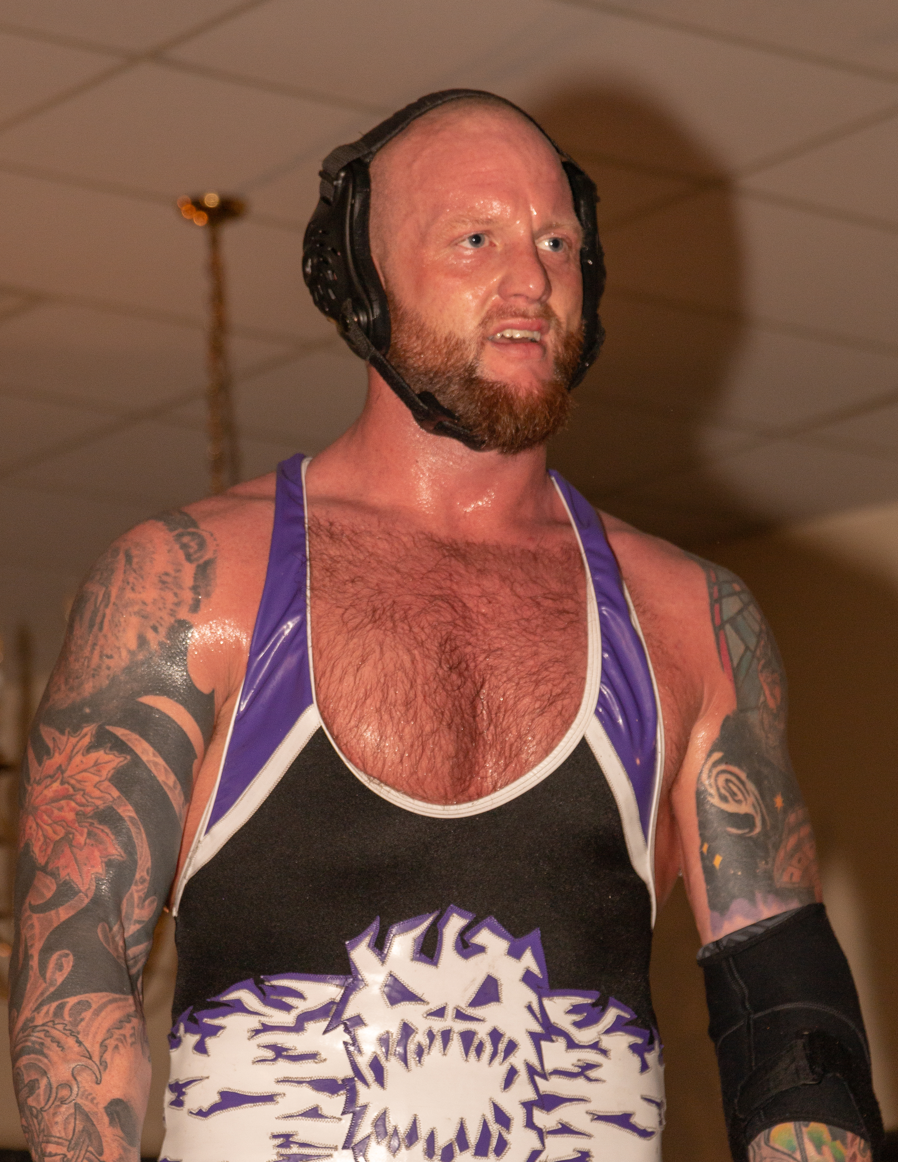 Josh Alexander during a match at Alpha-1 Wrestling's Final Act show in Hamilton, ON